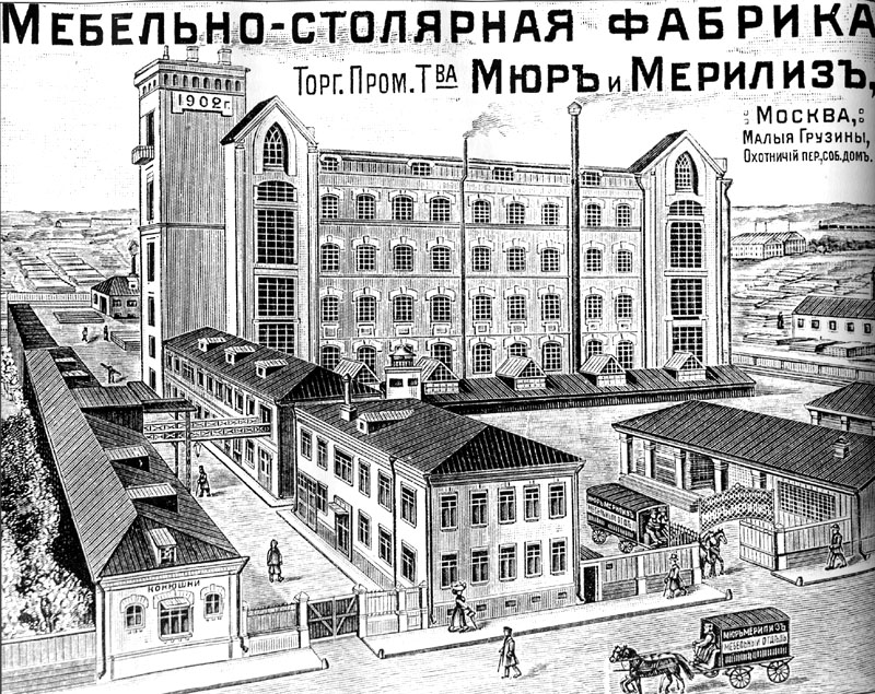 Muir and Mirrielees furniture factory, Rastorguyevsky lane, Moscow, 1900s